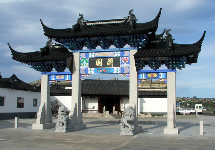 Pai Lou gate at the entrance to Dunedin Chinese Garden, New Zealand, photographed by James Dignan (user:Grutness) on September 22, 2008